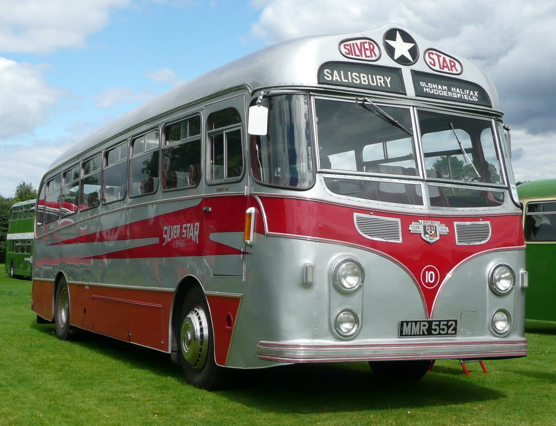 Preserved Silver Star 10 (MMR 552), a 1955 Leyland Tiger Cub/Harrington, at the 2008 Alton bus rally at Anstey Park.